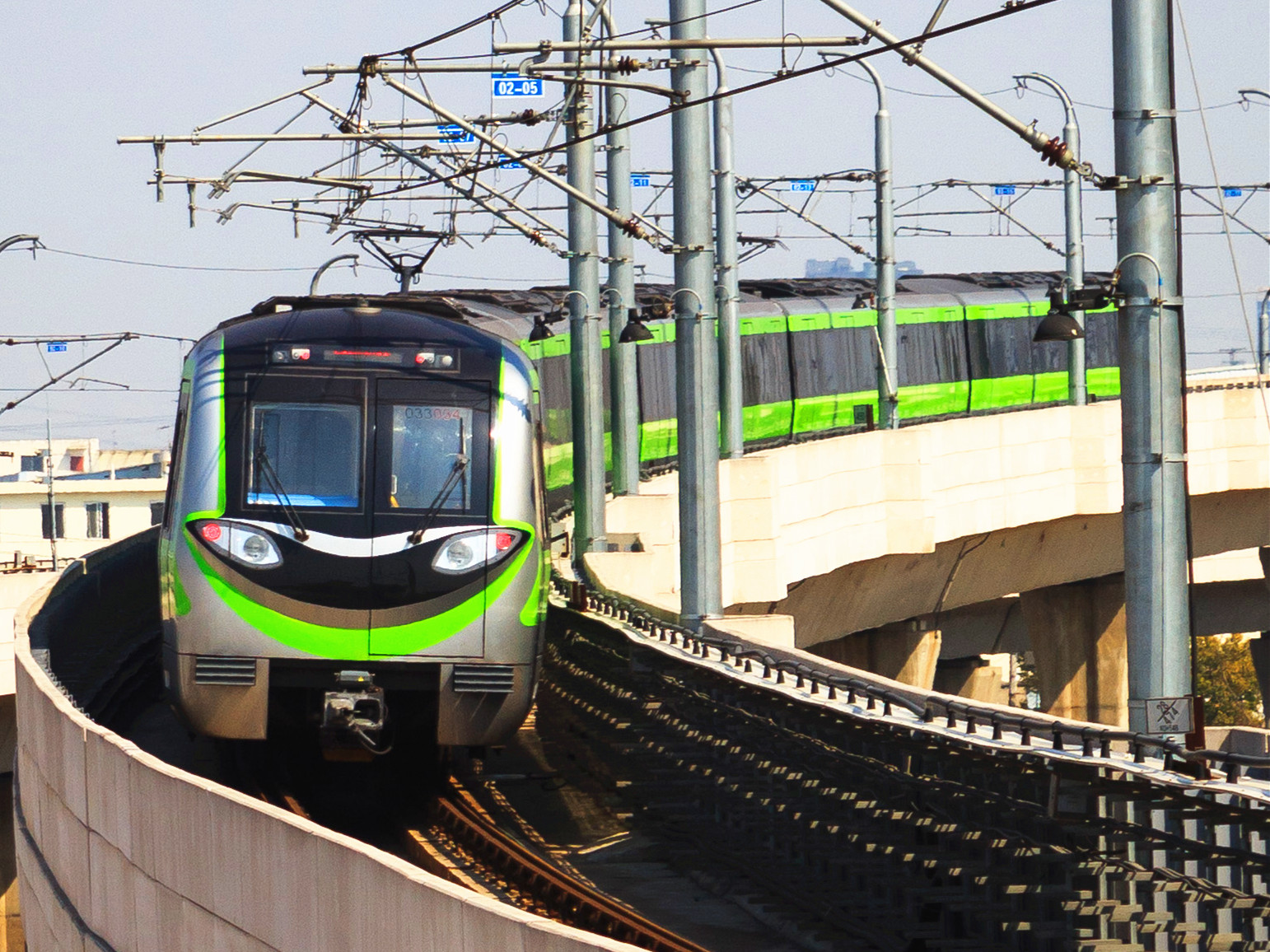 One set of Nanjing Metro Line 3 train is leaving Linchang station